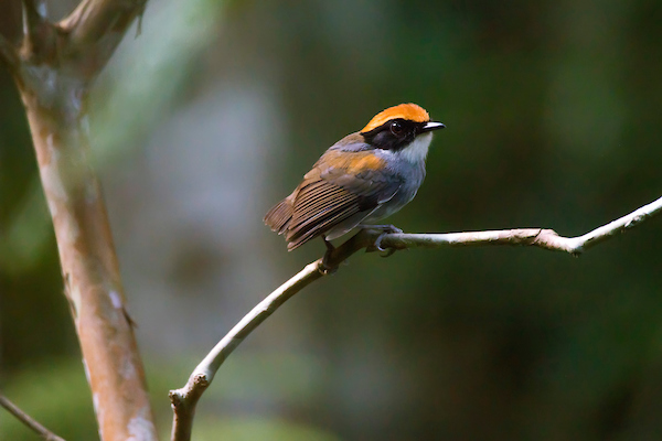 "Cuspidor-de-máscara-preta (Conopophaga melanops) fotografado em Santa Teresa, Espírito Santo - Sudeste do Brasil. Bioma Mata Atlântica. Registro feito em 2013. ENGLISH: Black-cheeked Gnateater photographed in Santa Teresa, Espírito Santo - Southeast of Brazil. Atlantic Forest Biome. Picture made in 2013."